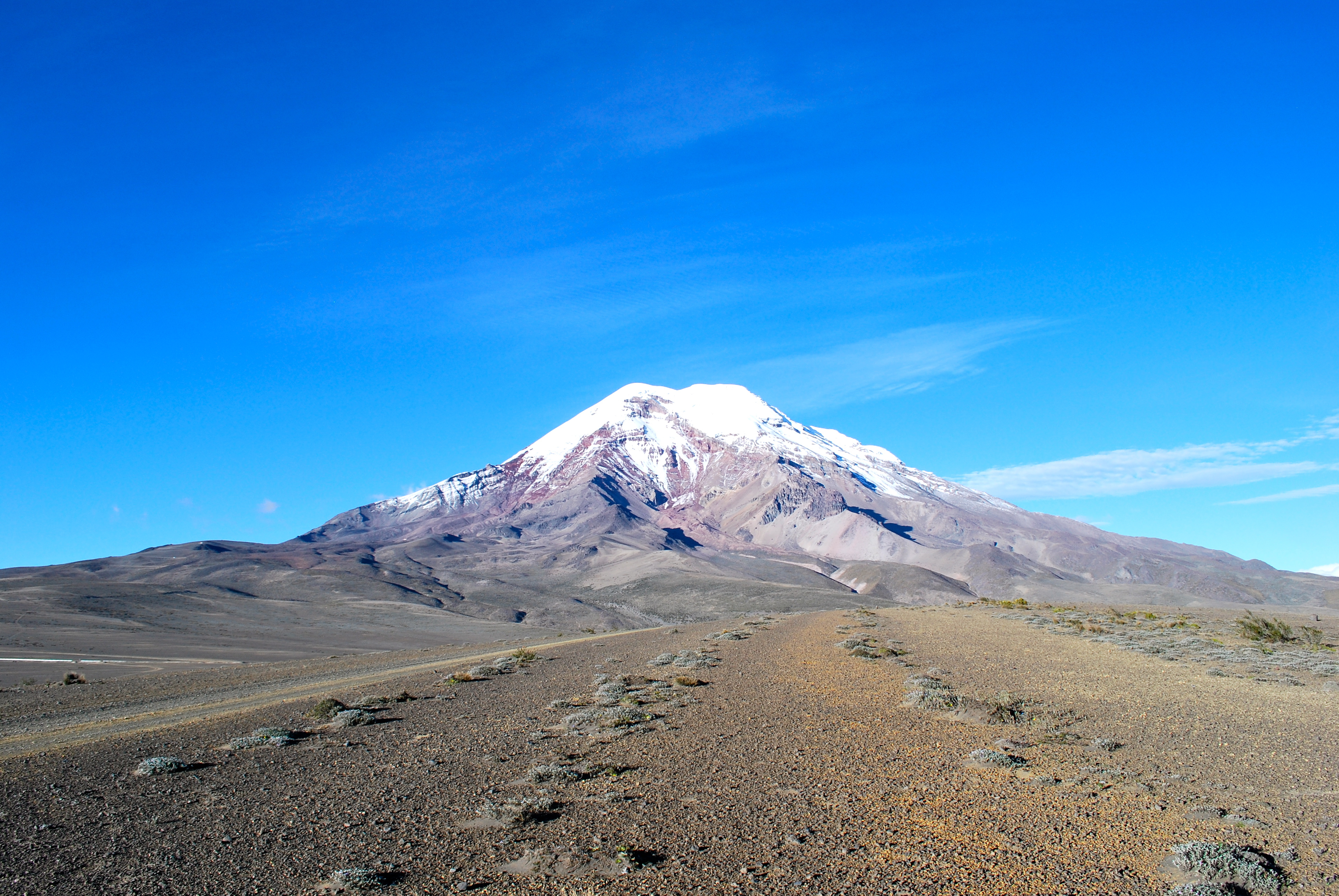 Chimborazo volcano, the closest point to the sun. Riobamba - Ecuador